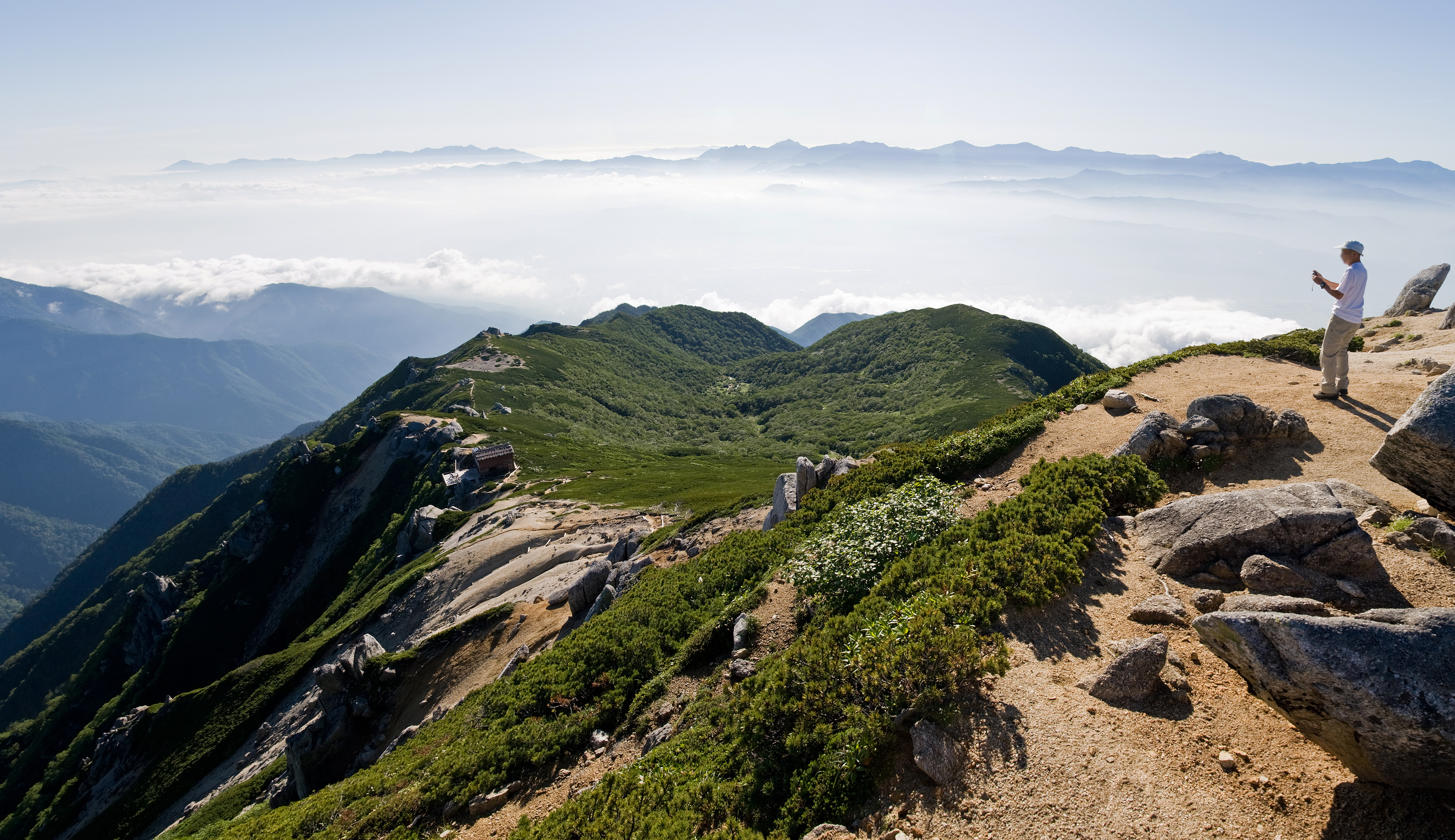 Utsugidaira-Cirque in Mts.Kiso, Nagano, Japan.